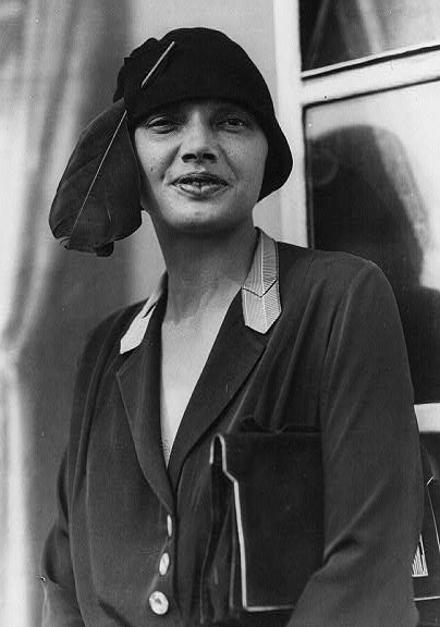 American stage actress, writer, theatre owner and producer Katharine Cornell (1893 - 1974).